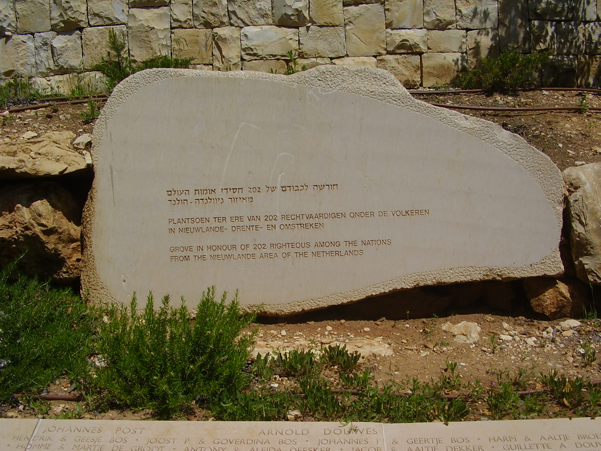 nieuwlande memorial in yad vashem